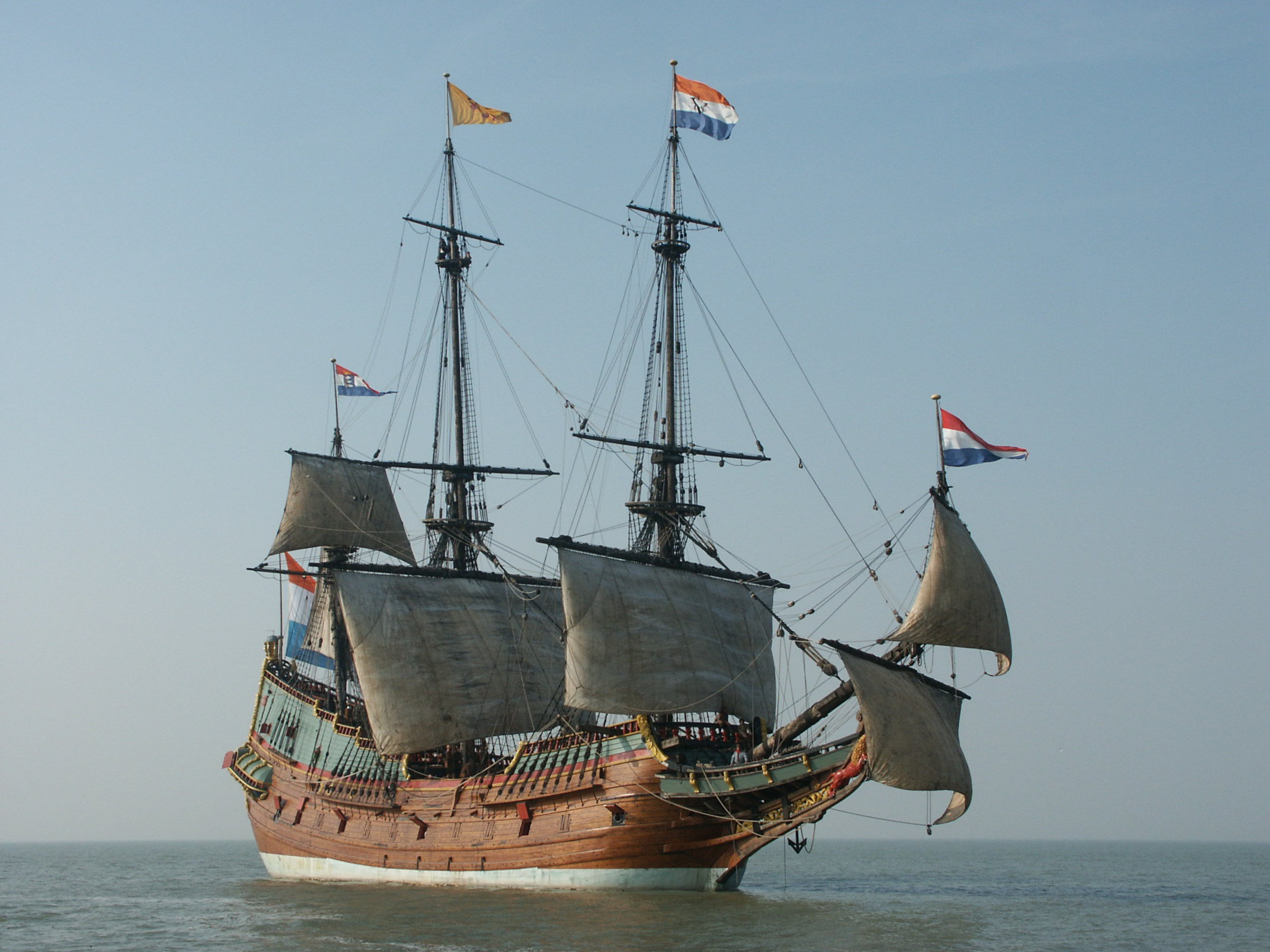 The replica of the Batavia on the Markermeer during a filmshoot